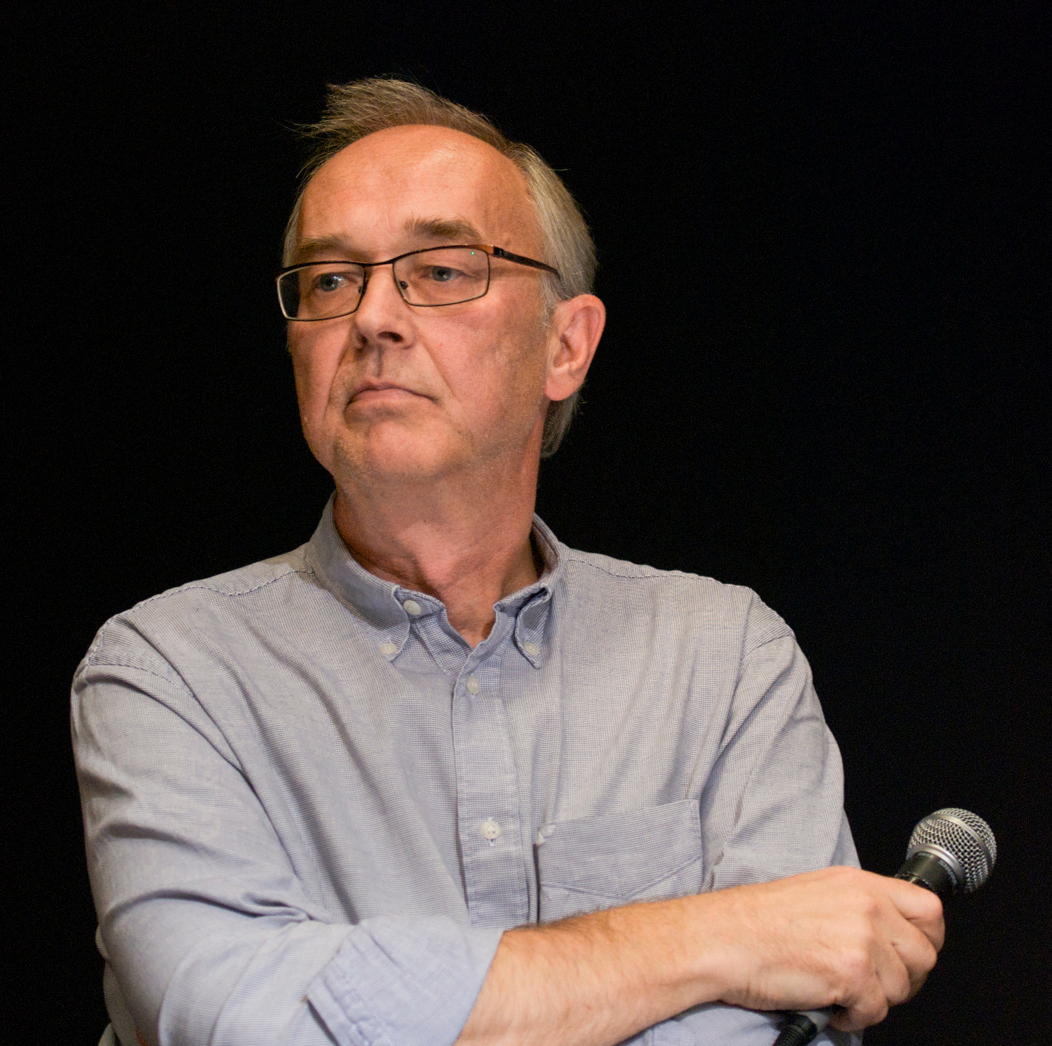 Nils Funcke at Göteborg Book Fair 2011.